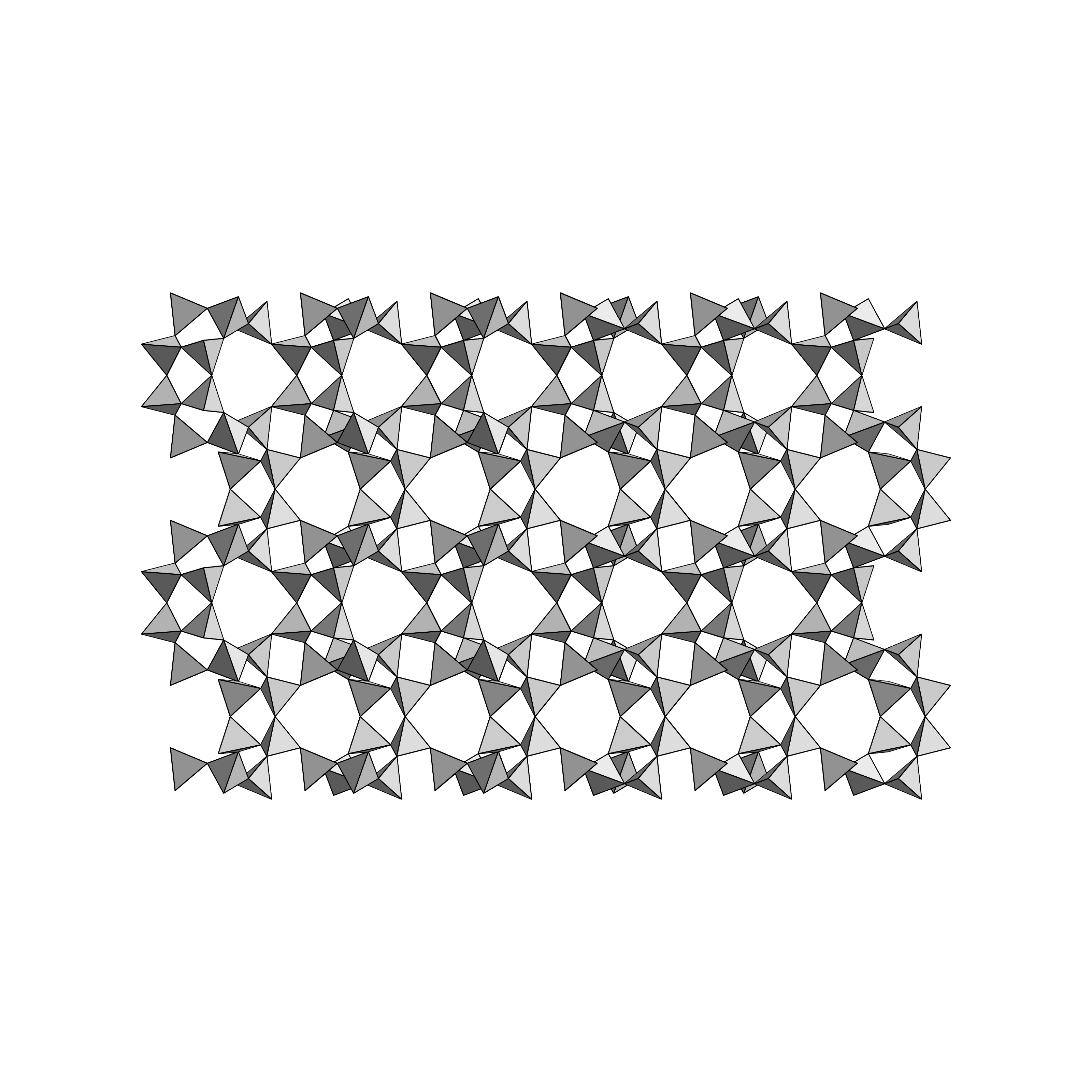 Phillipsite silicate framework, view along [101]-axis Data from: Gatta G D., Cappelletti P., Rotiroti N., Slebodnick C., Rinaldi R. (2009): New insights into the crystal structure and crystal chemistry of the zeolite phillipsite, American Mineralogist 94, pp. 190 - 199 Calculation of image data: Larry W. Finger, Martin Kroeker, and Brian H. Toby, DRAWxtl, an open-source computer program to produce crystal-structure drawings, J. Applied Crystallography V40, pp. 188-192, 2007 Rendering: POVRAY